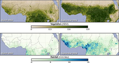 A aspect of a NASA attempt to "map out Sahara desertification in the Sahel sub-Saharan savanna was time. If land is not considered desertified unless the change is permanent, you need to track change over a long period—ten to twenty years at least—to see if vegetation is permanently altered. In 2006, Goddard’s Global Inventory Modeling and Mapping Studies (GIMMS) group, led by Tucker, released a twenty-four-year-long data set, the longest satellite-based vegetation record available. “The data set provides an essential 24-year record of vegetation dynamics that enables us to detect areas where degradation is taking place and areas of desertification,”...